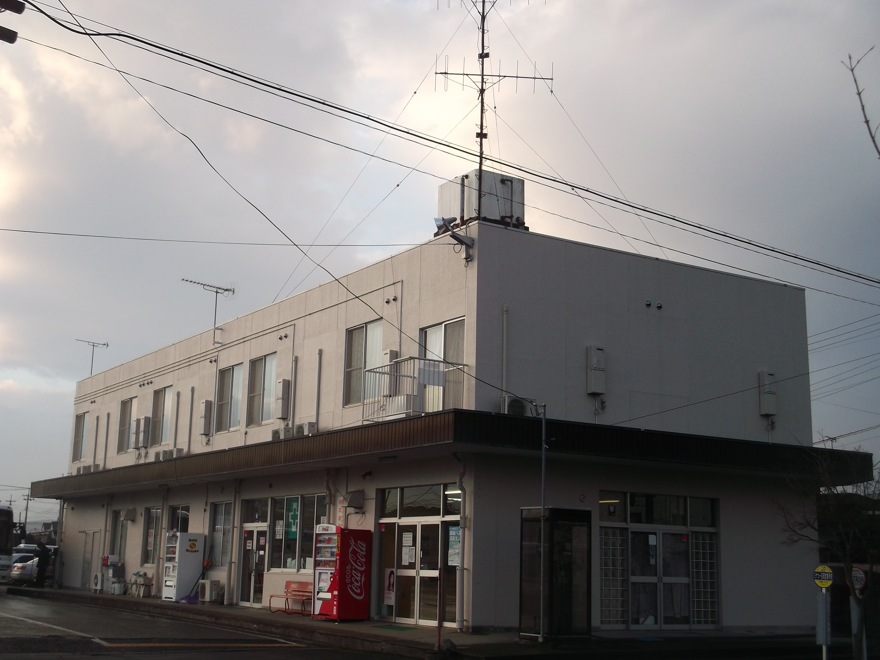 Miyakoh Bus Yoshioka Depot